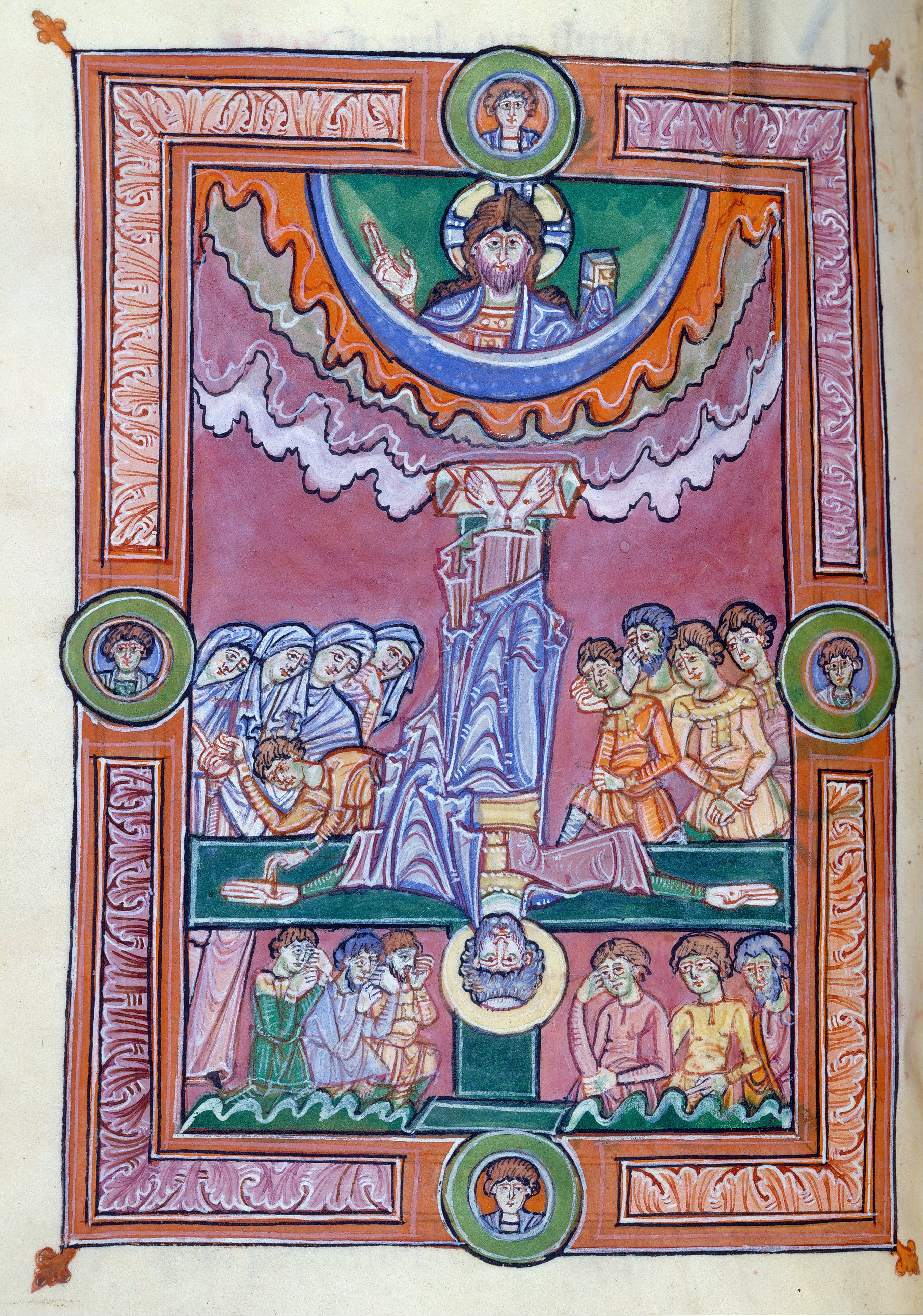 Sacramentary, in Latin France, Abbey of Mont-Saint-Michel, ca. 1060 The Abbey of Mont-Saint-Michel rose in importance during the Norman Conquest. In the eleventh century, when the abbey was built on the rock, its scriptorium pioneered a Romanesque style. As a pilgrimage site between England and the Continent, the abbey absorbed influences from both regions and disseminated its distinctive style. This Sacramentary, containing texts read by the celebrant during high Mass, is the most lavish manuscript from Mont-Saint-Michel. This Crucifixion of St. Peter is executed in the characteristic Norman style, with figures more drawn than painted. The busy drapery and foliage, jagged lines, and distinctive pale palette betray the influence of tenth- and early-eleventh-century English decoration.